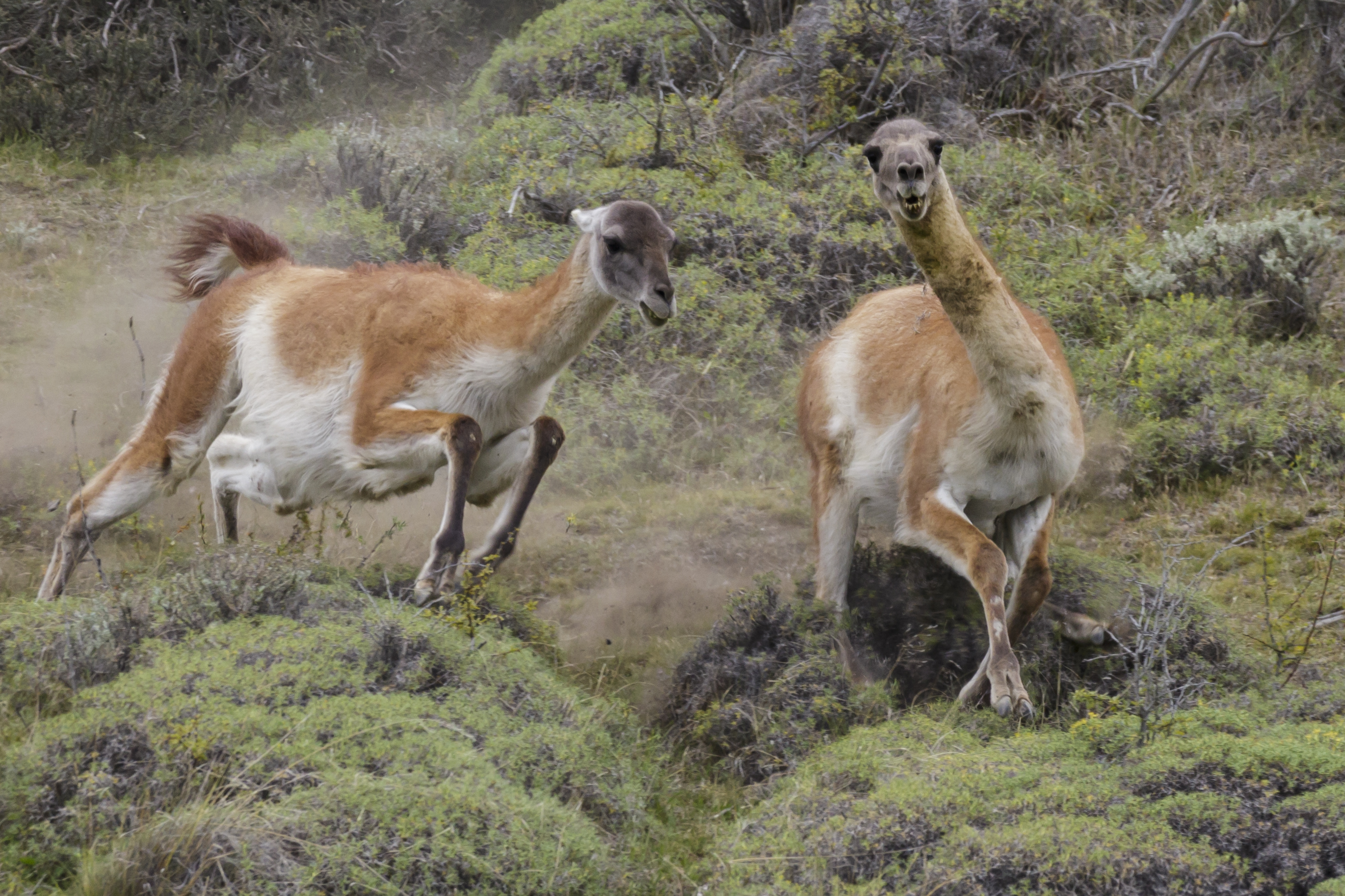 PanAmericana 2017 - the image was taken on an overlanding travel from Ushuaia to Anchorage - taken by Thomas Fuhrmann, SnowmanStudios - see more pictures on / mehr Aufnahmen auf